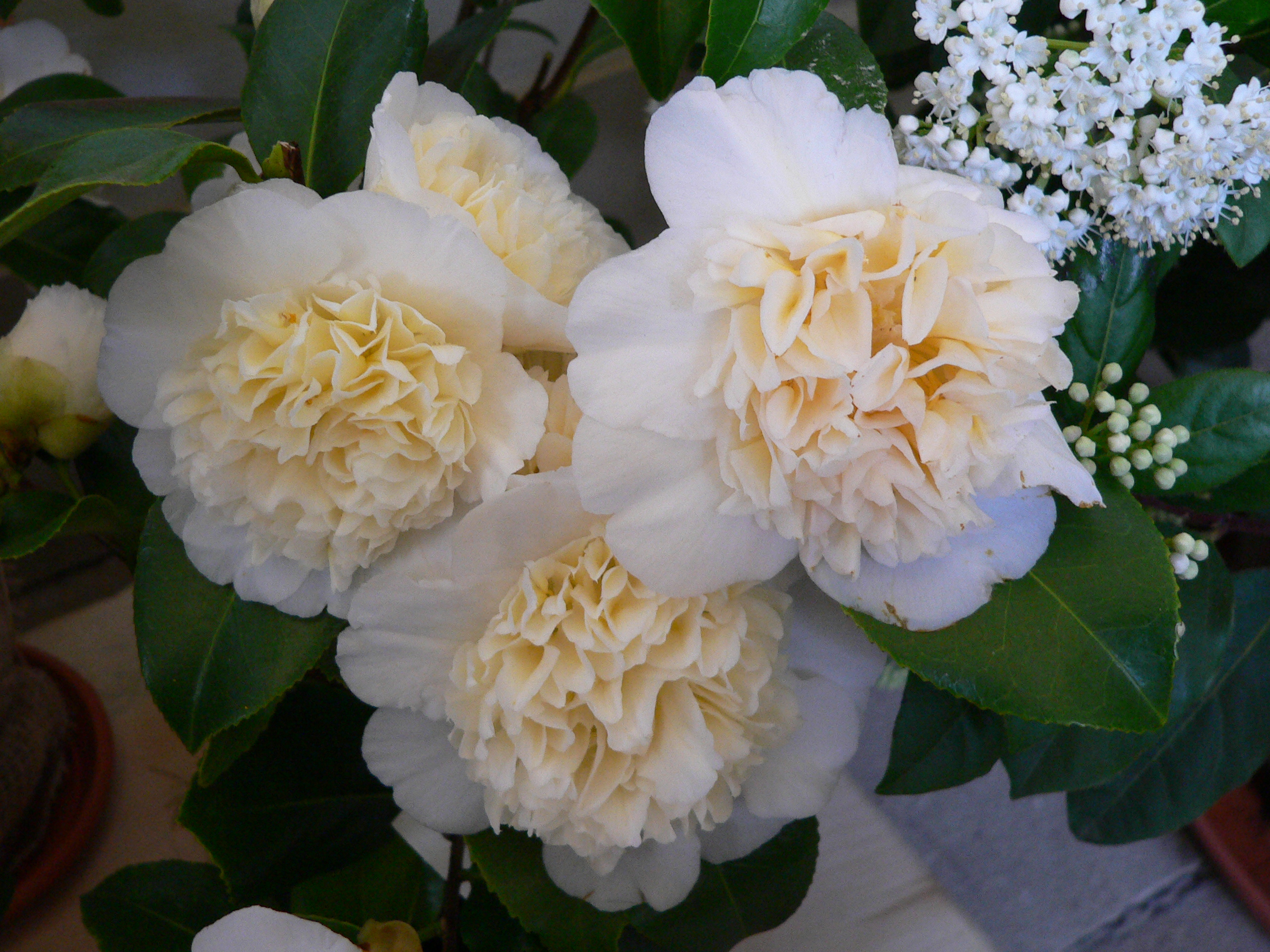 Camellia hybride, 'Jury's Yellow'